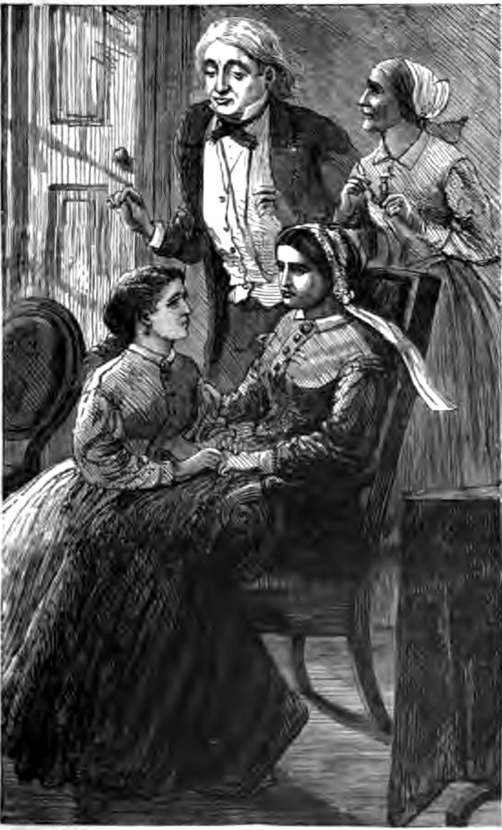 Illustrations from the book, The Moonstone, by Wilkie Collins